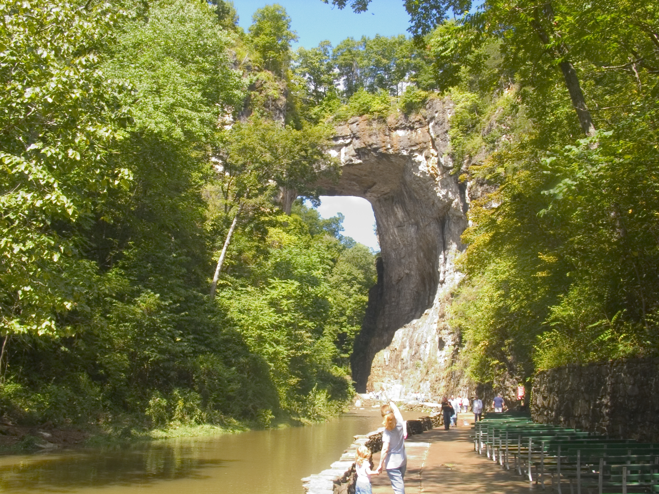 Picture taken from the walkway that winds underneath the Natural Bridge in September, 2006.